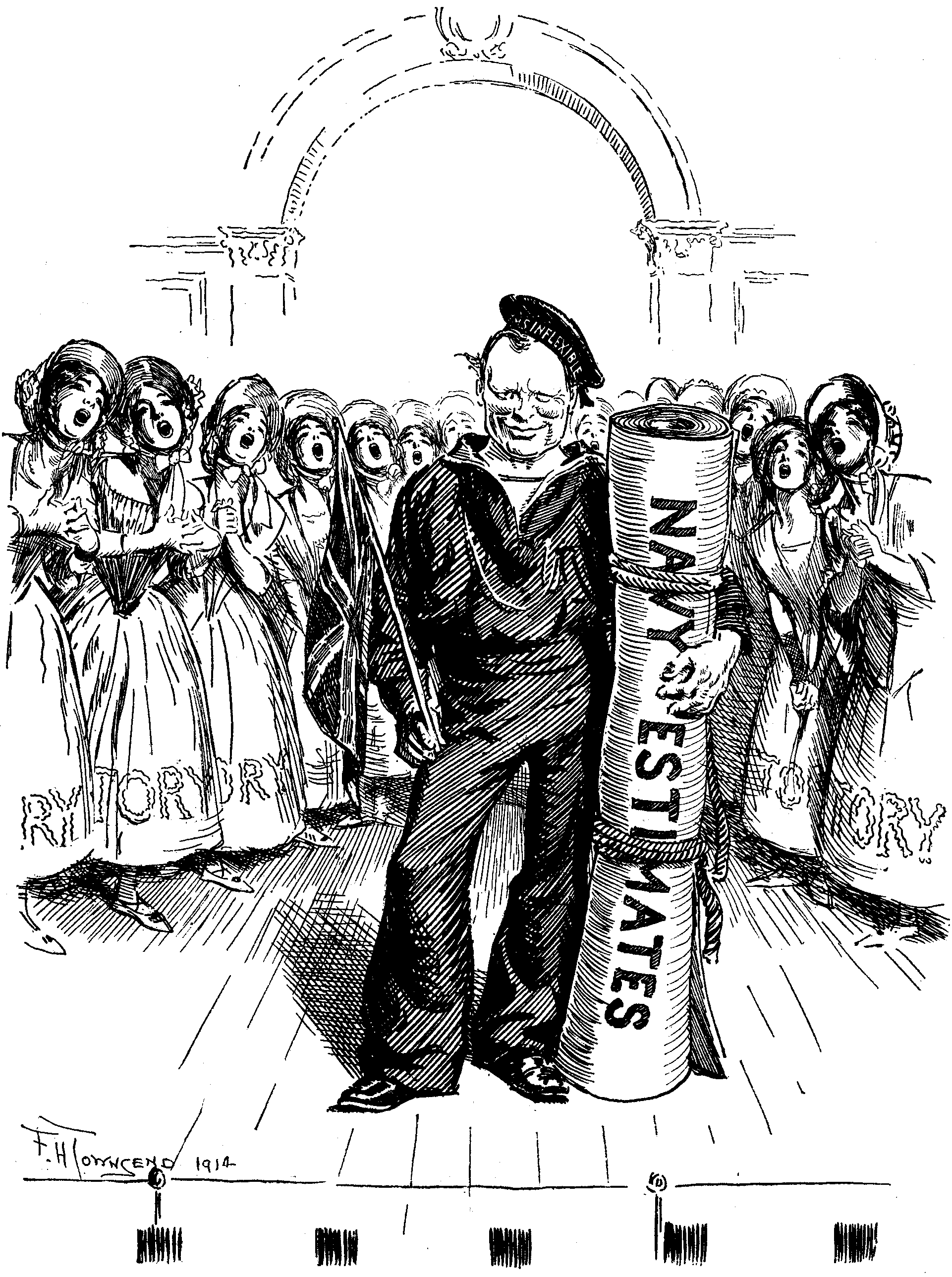 A Sea-Change. Tory chorus (to Winston). "You've made me love you; I didn't want to do it."Cartoon from Punch magazine, 14th January 1914, referring to the approbation of Churchill's erstwhile Conservative Party colleagues to his proposals for funding the navy; and invoking the song You made me love you popularised in a 1913 Al Jolson recording.